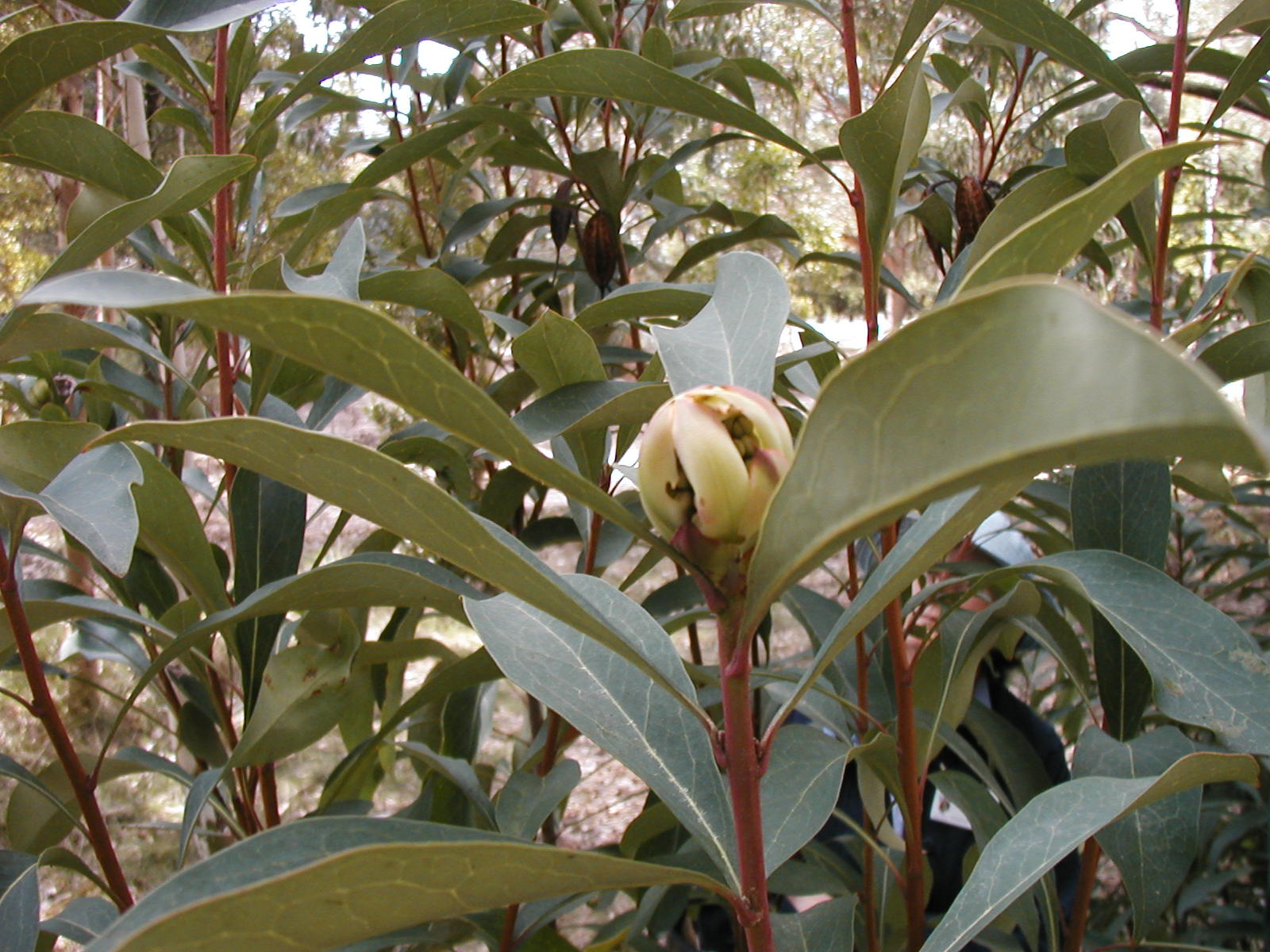 Telopea oreades in bud, cultivated near Colac, Victoria.